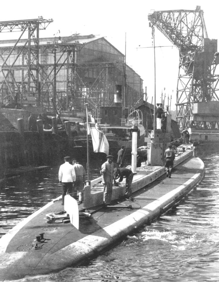 Kaiserliche Marine Postcard of SM U8 in harbour 1909-1915